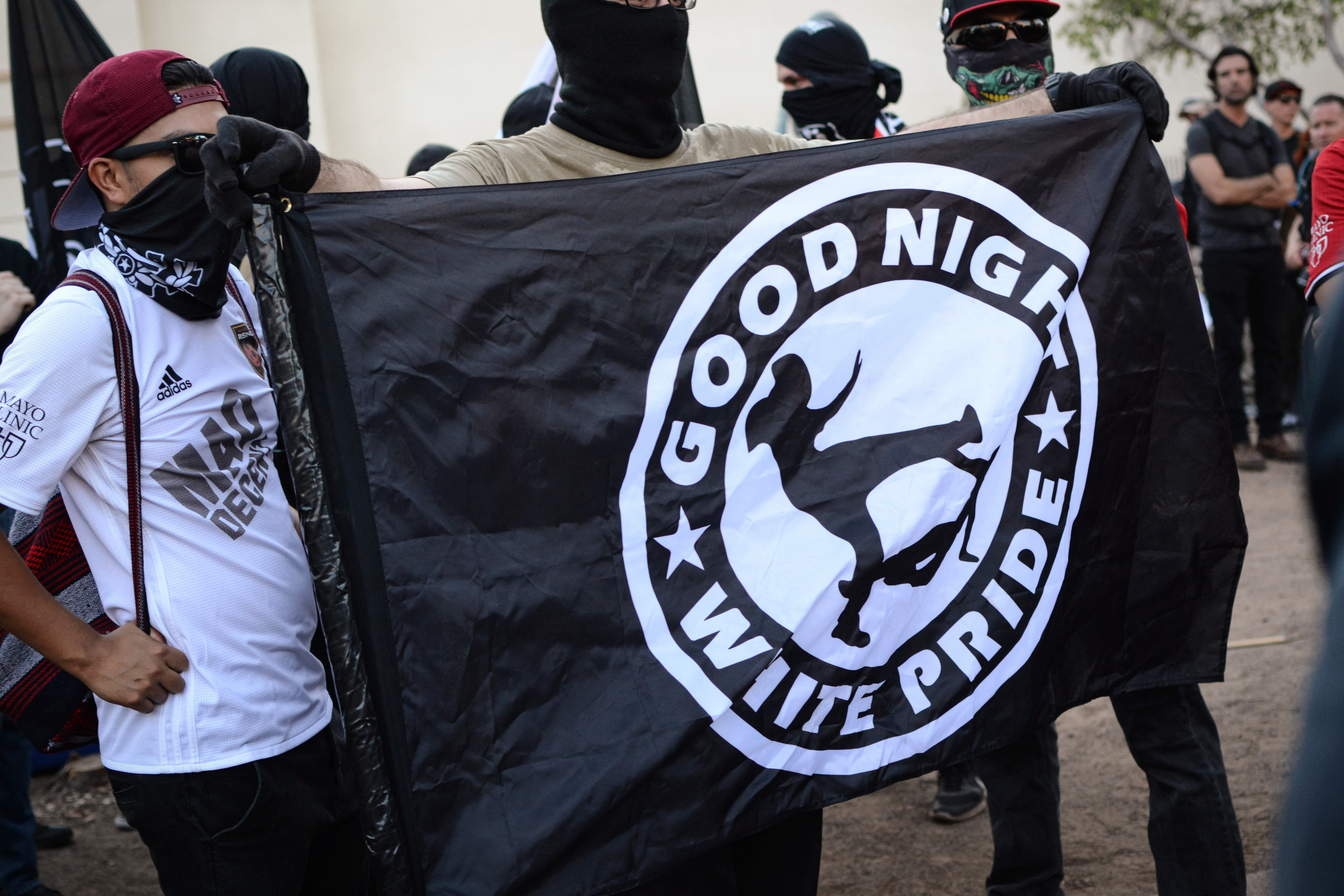 Their banner says "Good night white pride."